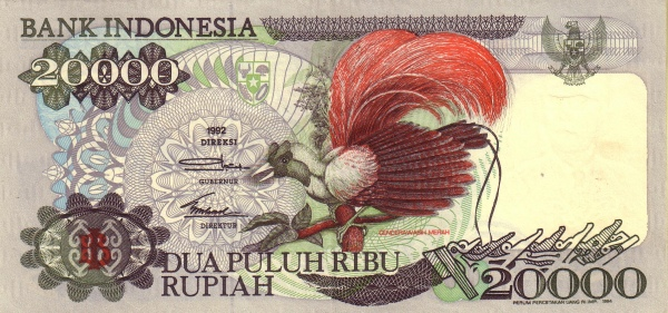 Indonesian currency issued 1976-2000.